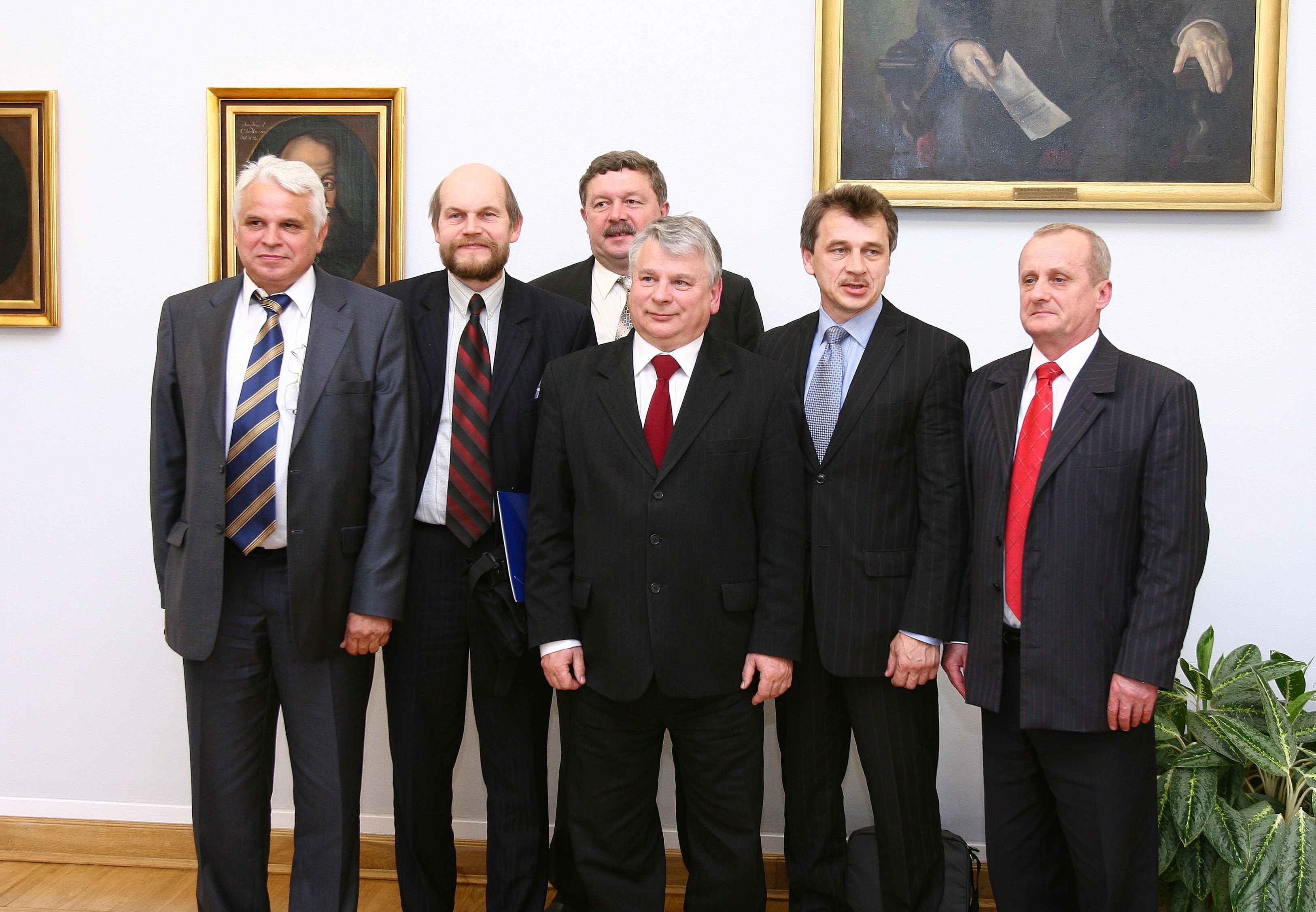 Anatoly Lebedko and a group of Belarussian opposition activists in the Polish Senate